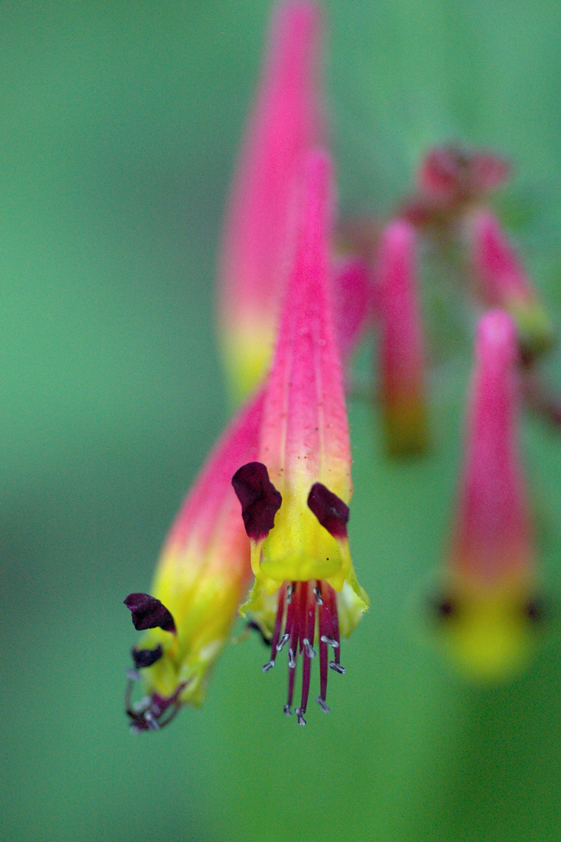 Cuphea cyanea, photographed at the San Francisco Botanical Garden at Strybing Arboretum